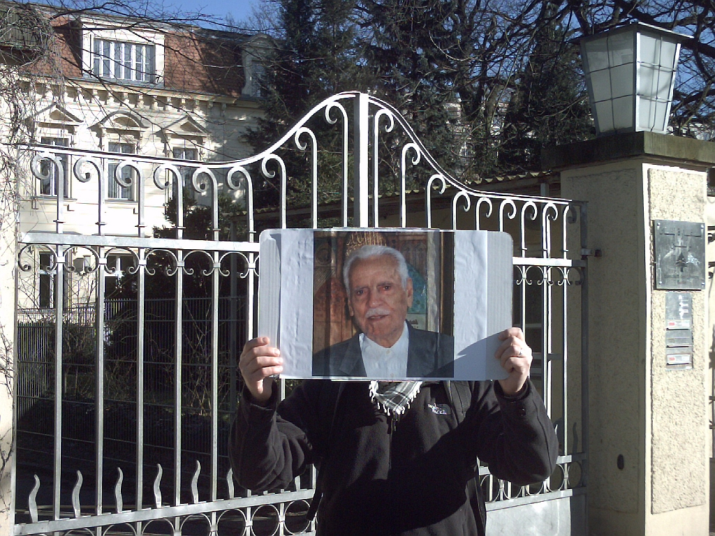 On the occasion of Shibli al-Ayssami's 89th birthday ba'athist students in Berlin remember his fate infront of the Lebanese embassy